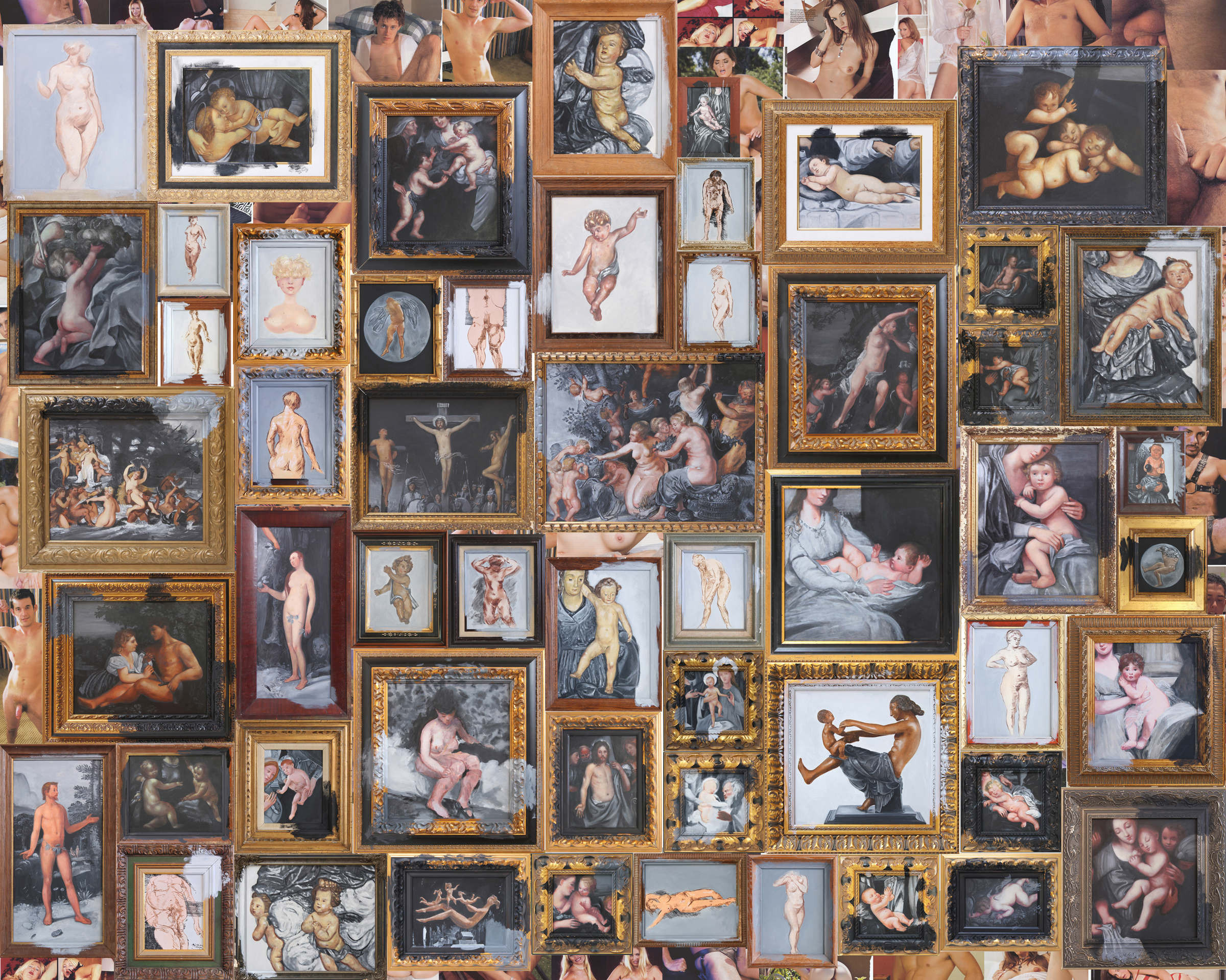 paintings and images made myself, I am the author